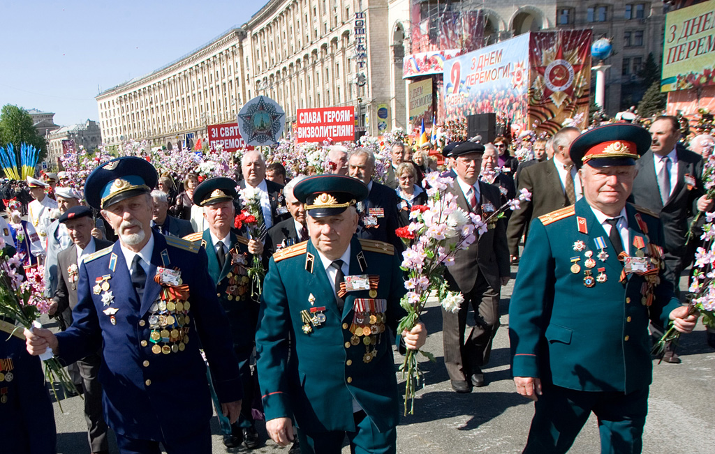 “May 9th holiday in CIS countries”. World War II veterans take part in festivities held on the 66th anniversary of Victory in the Great Patriotic War.